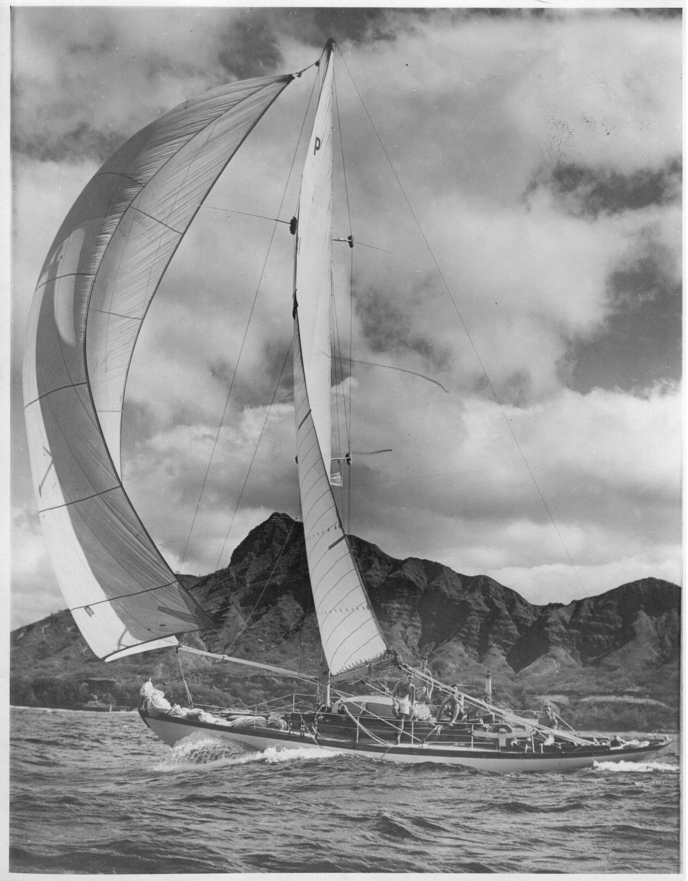 Pajara, 44 foot cutter, late 1930s